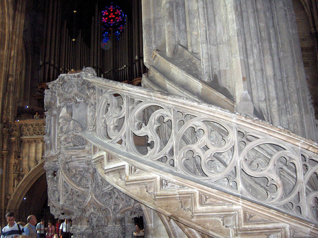 Stairs to the pulpit with masterly filigree and decorations of toads and lizards on the handrail; in the Stephansdom in Vienna, Austria (Kanzel des Stephansdoms (Wien))